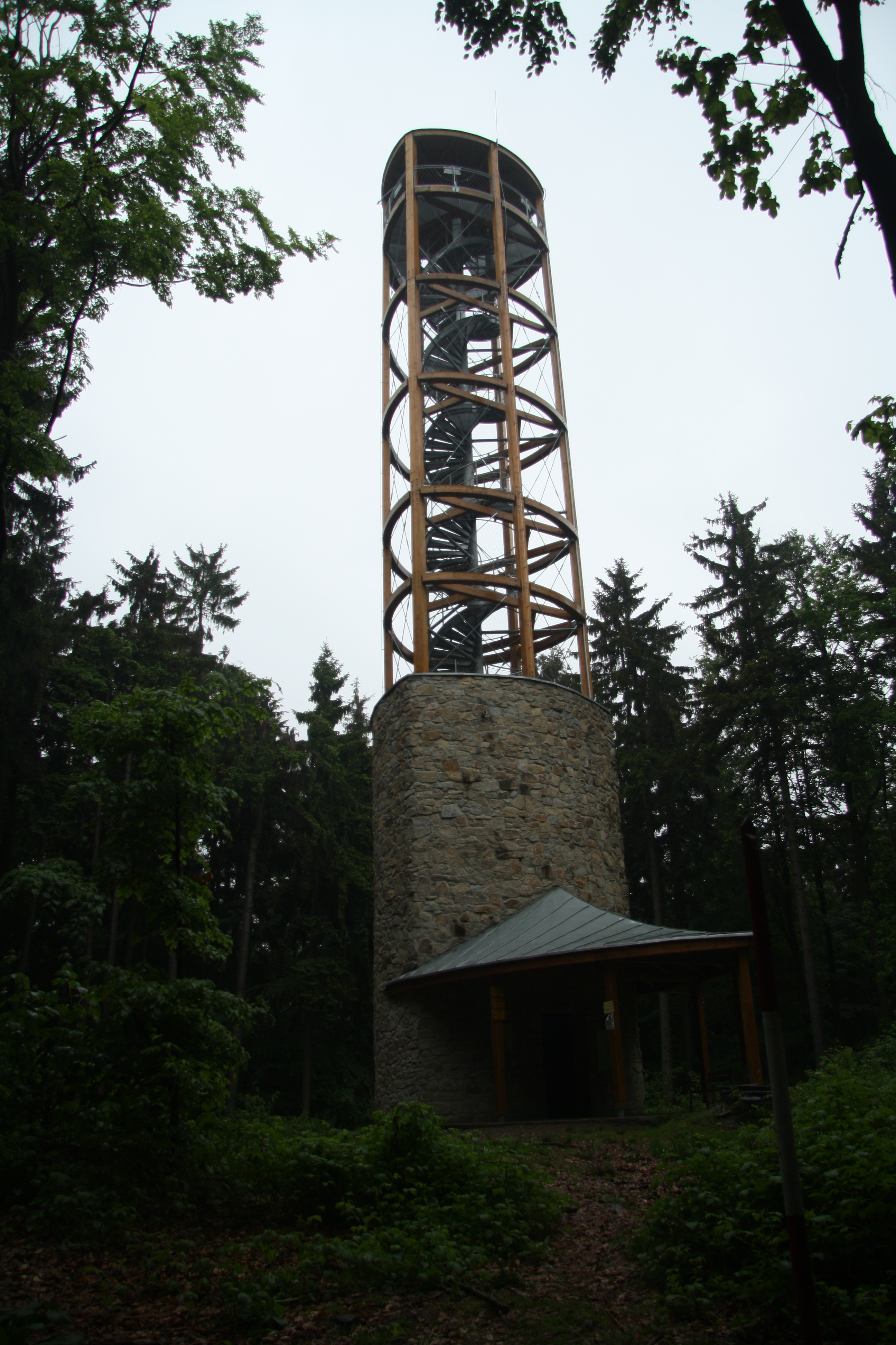 Observation tower Mařenka at Mařenka hill near Štěměchy, Třebíč District.